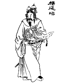 An illustration of Yang Yanzhao from a 19th century novel print.